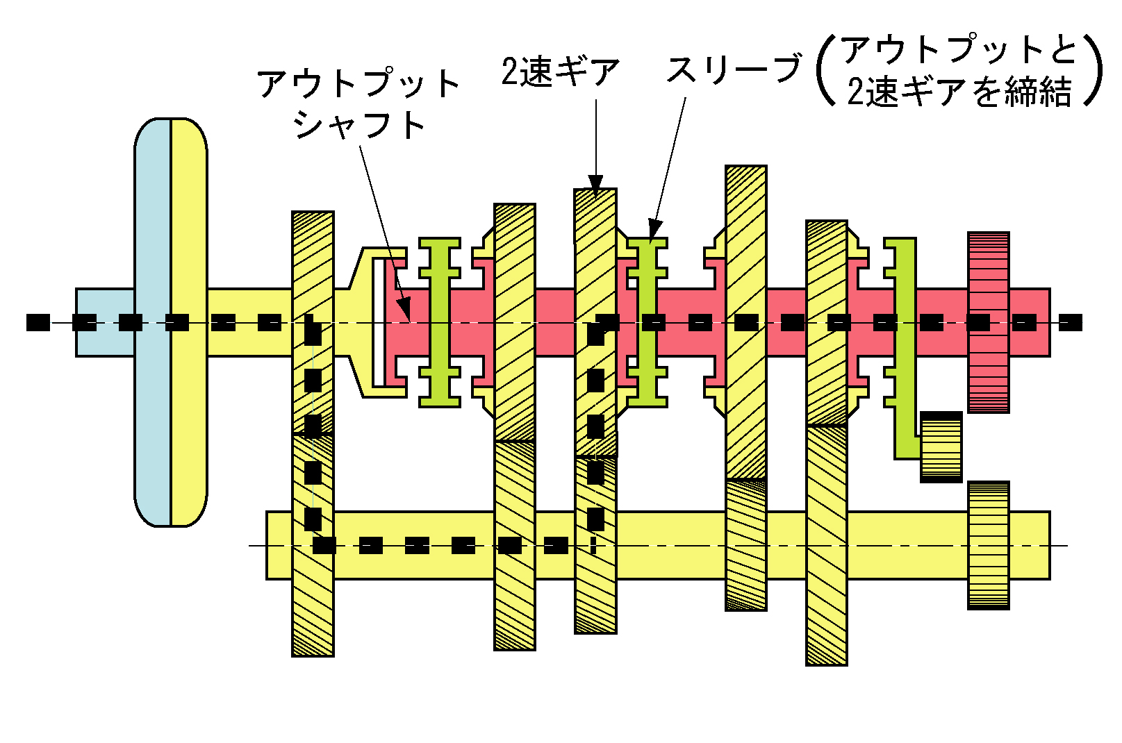 Internal structure of manual transmission